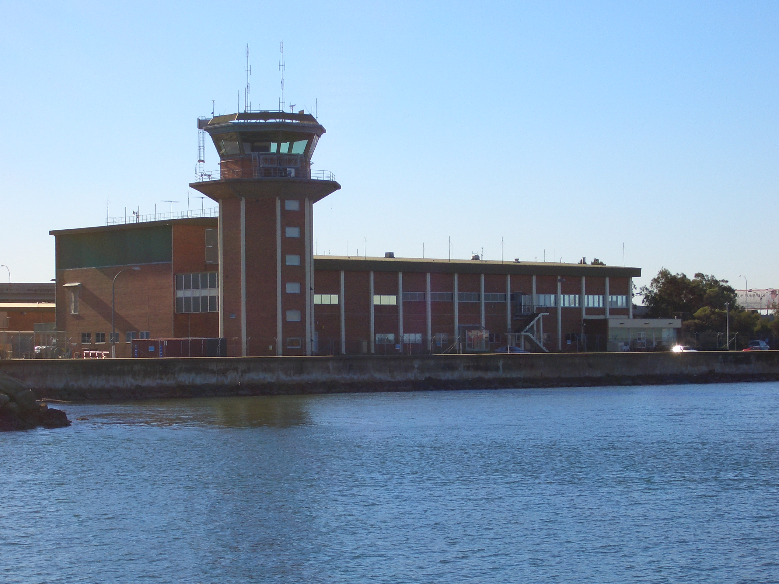 Sydney Airport Terminal Control Unit